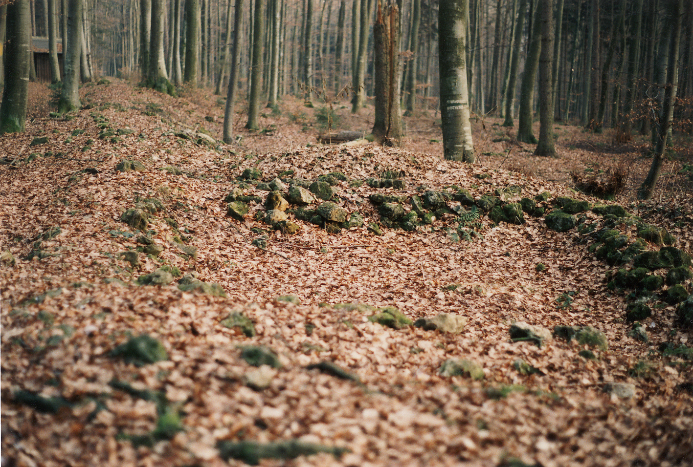 The Rhaetian wall, which at the latest after 213 in stone has been expanded. In the foreground the remains of walls of WP 14/77. This is a photograph of an archaeological site.